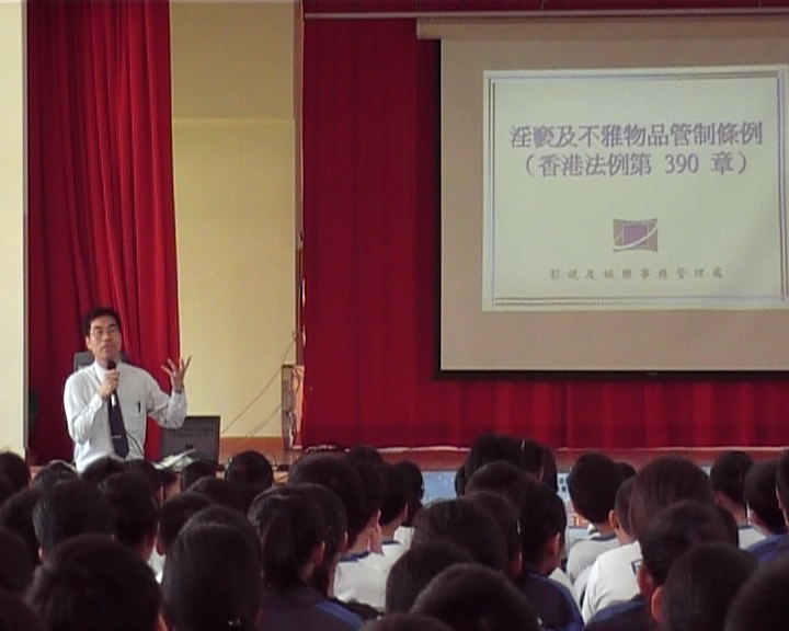 Staff from TELA of Hong Kong came to give a talk for schools about categorizing materials. Location: Fanling Public School, Hong Kong. Event: IT Fun Day